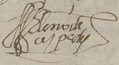 Signature of Eleno de Céspedes from Inquisition trial documents (c. 1587-88).